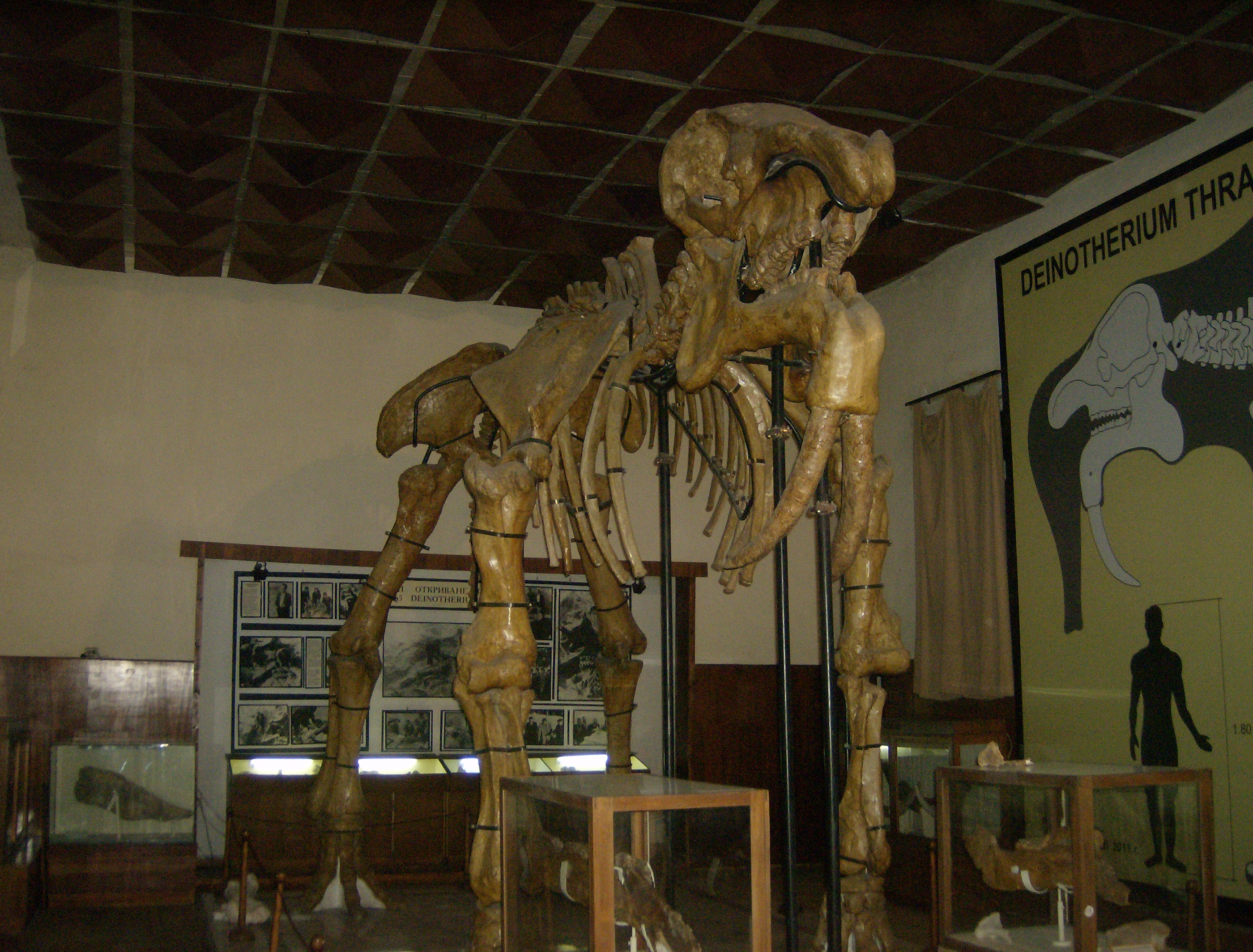 Deinotherium thraciensis, Paleonthological Museum Asenovgrad, Bulgaria